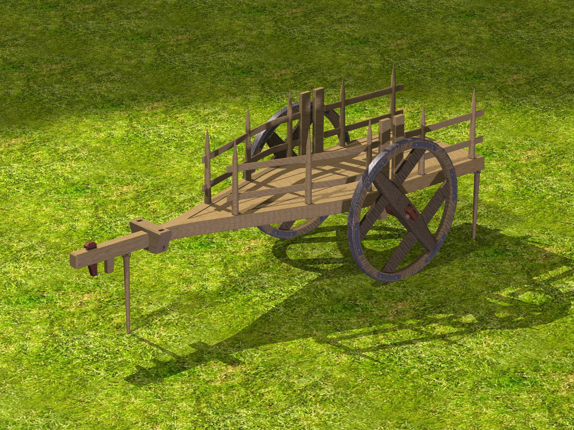 3D rendering: Cart used in Cantabria (Spain).